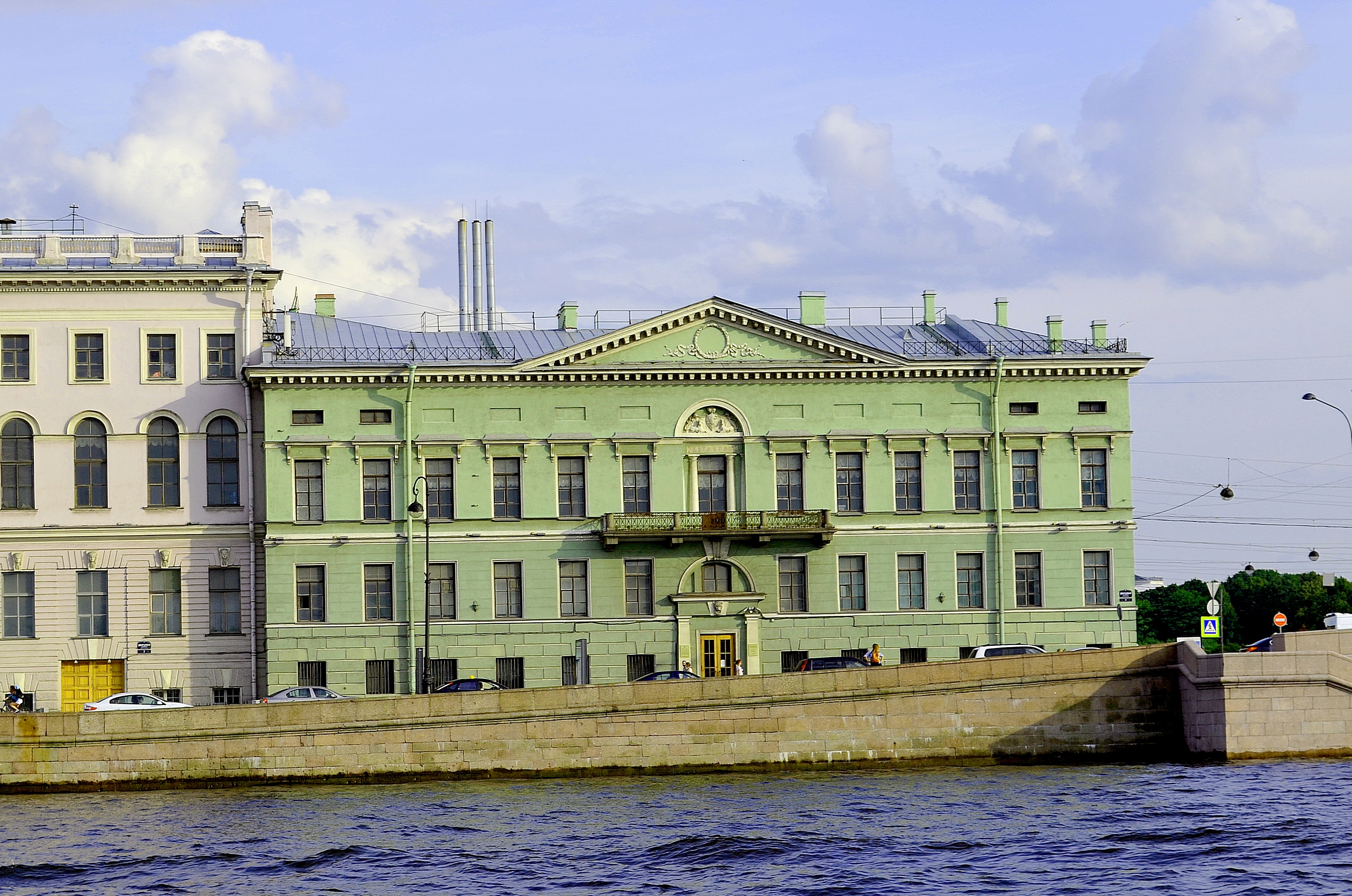 St. Petersburg. Palace Embankment. 4. House Saltykov. 1787.1818 years.